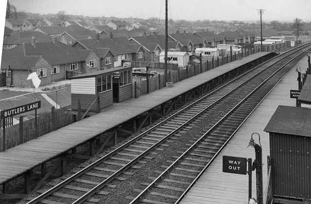 Butler's Lane Station. View northward, towards Lichfield; ex-London & North Western, Birmingham (New St.) - Sutton Coldfield - Lichfield line, now the northern section of the Cross-City Line, electrified in 1992. This station was opened as a Halt on 30/9/57, closed for rebuilding on 21/10/91, and reopened as a modern station on 23/3/92.